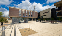 Sydney Jones Library